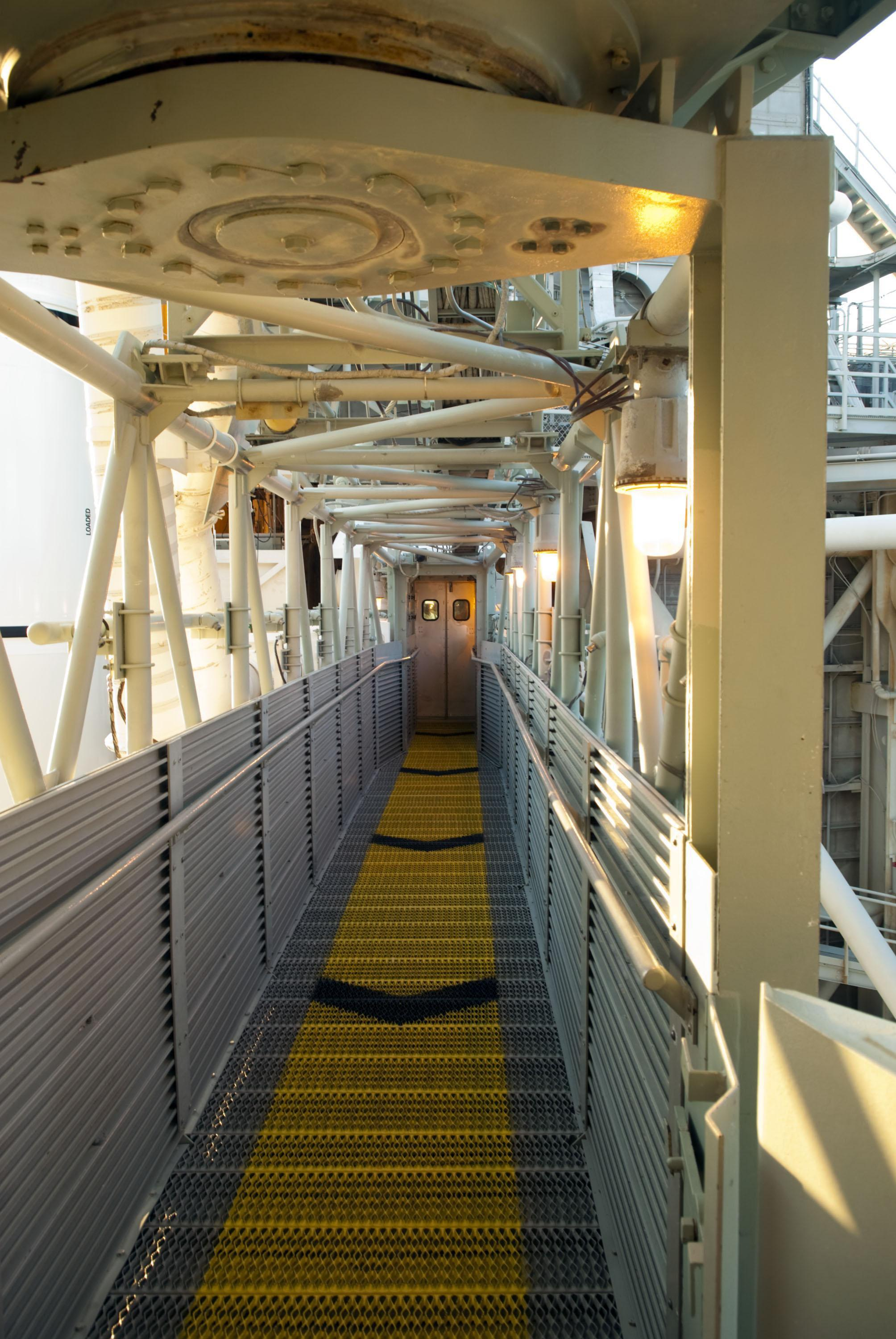 The doors to the White Room, which provide entry to space shuttle Atlantis' crew compartment, are seen here at the end of the access arm walkway on Launch Pad 39A at NASA's Kennedy Space Center in Florida.